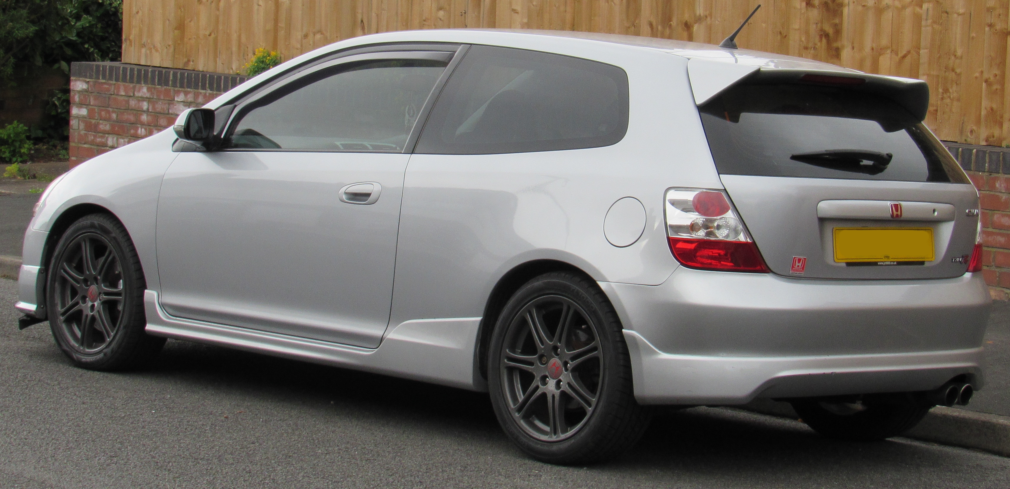 2005 Honda Civic Type-R 2.0 Rear Taken in Leamington Spa